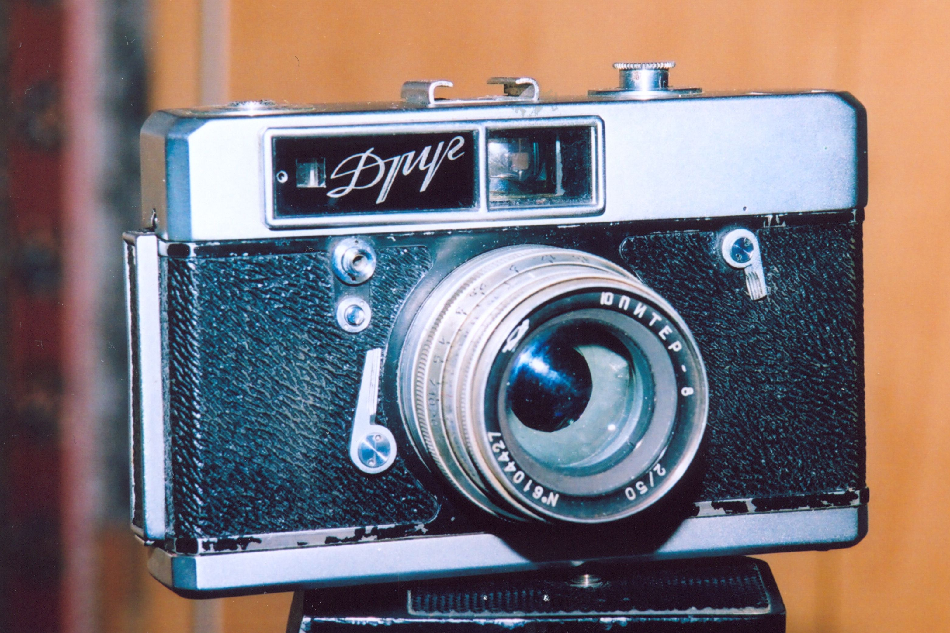 Droog (russian: Friend) rangefinder camera, produced by KMZ, USSR. Pre-production name - Zorki-7